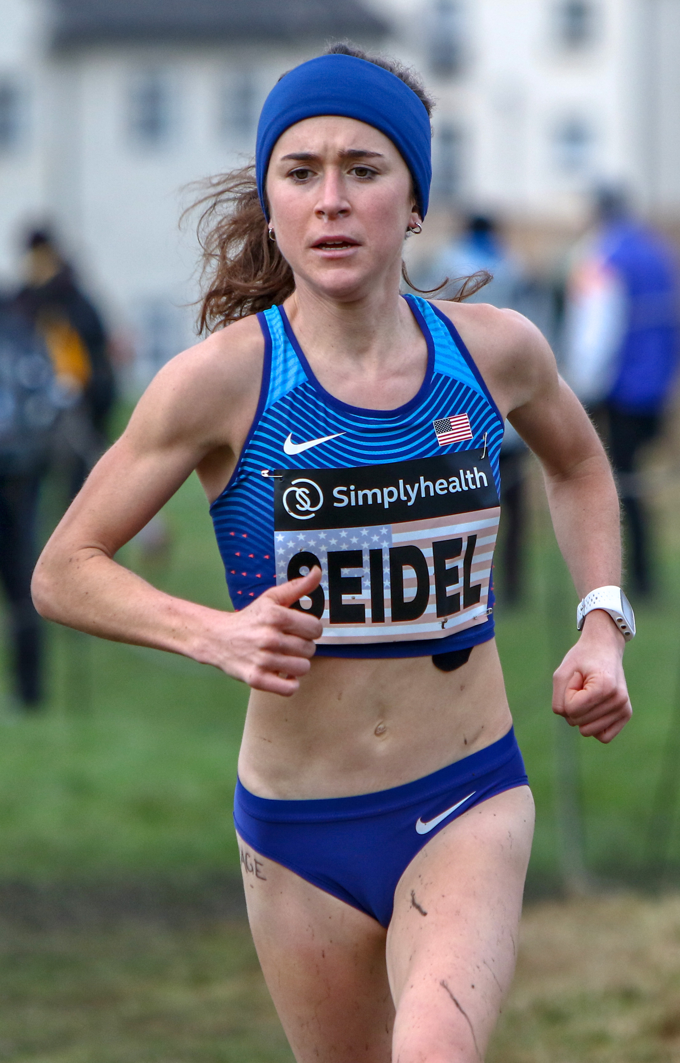 Great Edinburgh International Cross Country 2018 – Senior Women's 6km